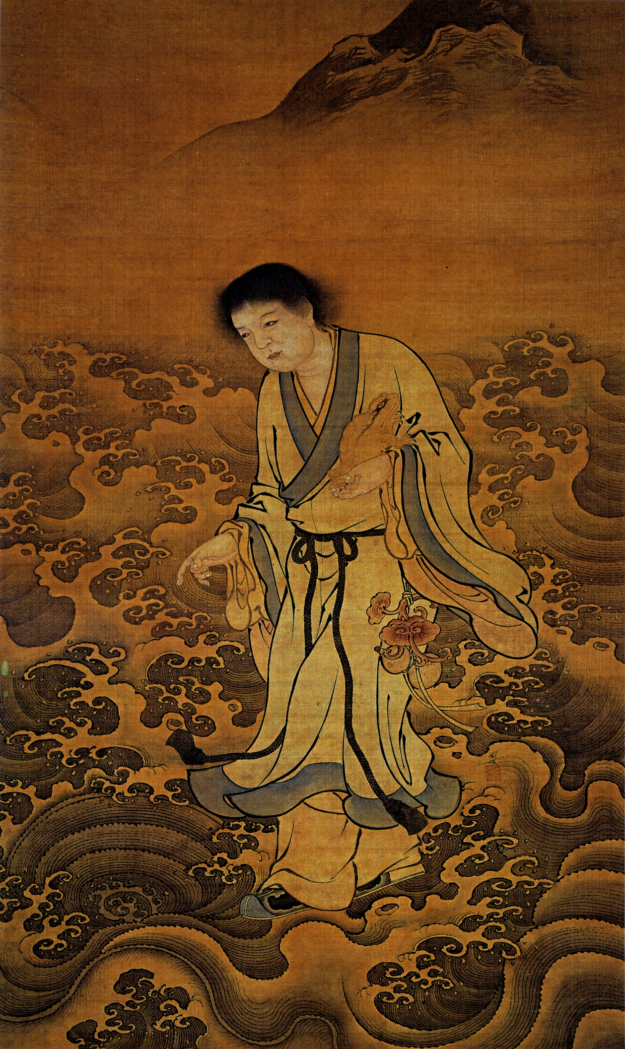 Liu Hai and Chan Chu, hanging scroll, color on silk, 181.3 x 108.8 cm. This painting shows the 10th century immortal Liu Hai carrying a Chan Chu (three-legged toad) across the water. Located at the Shijiazhuang Culture Museum.